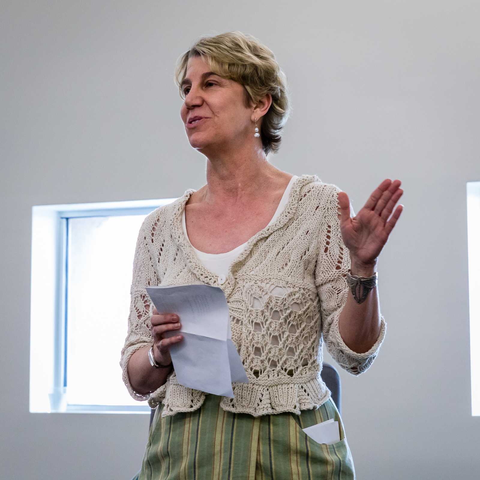 Professor Tara Ison talking about Cynthia Hogue’s accomplishments. The Department of English at ASU hosted this spring semester social event and celebration of recent and soon-to-be retirees: Daniel Brendza, Paul Cook, Cynthia Hogue, Simon Ortiz, Angelita Reyes, and Laura Tohe. Music at the event by Diego Alec Miranda (classical guitar). ASU Tempe campus Apr. 19, 2018